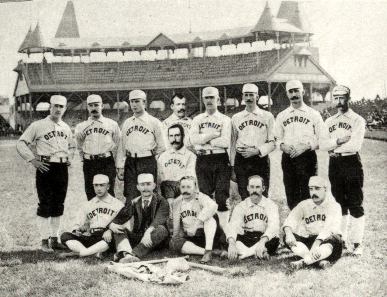 1888 Detroit Wolverines team photo, either taken in Boston or using the Boston grandstand as a backdrop